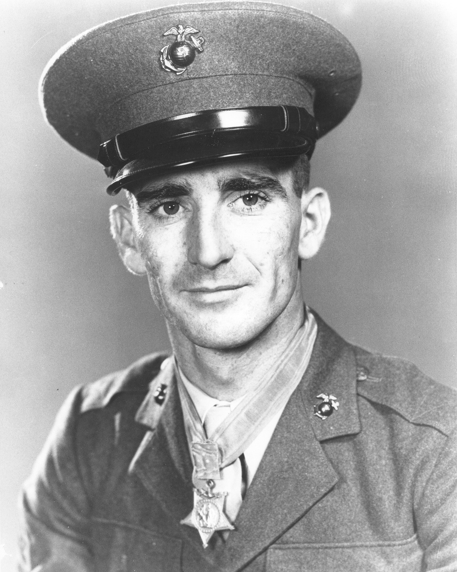 Alford L. McLaughlin, USMC, Medal of Honor recipient Author: United States Marine Corps Source: Official Marine Corps biography URL